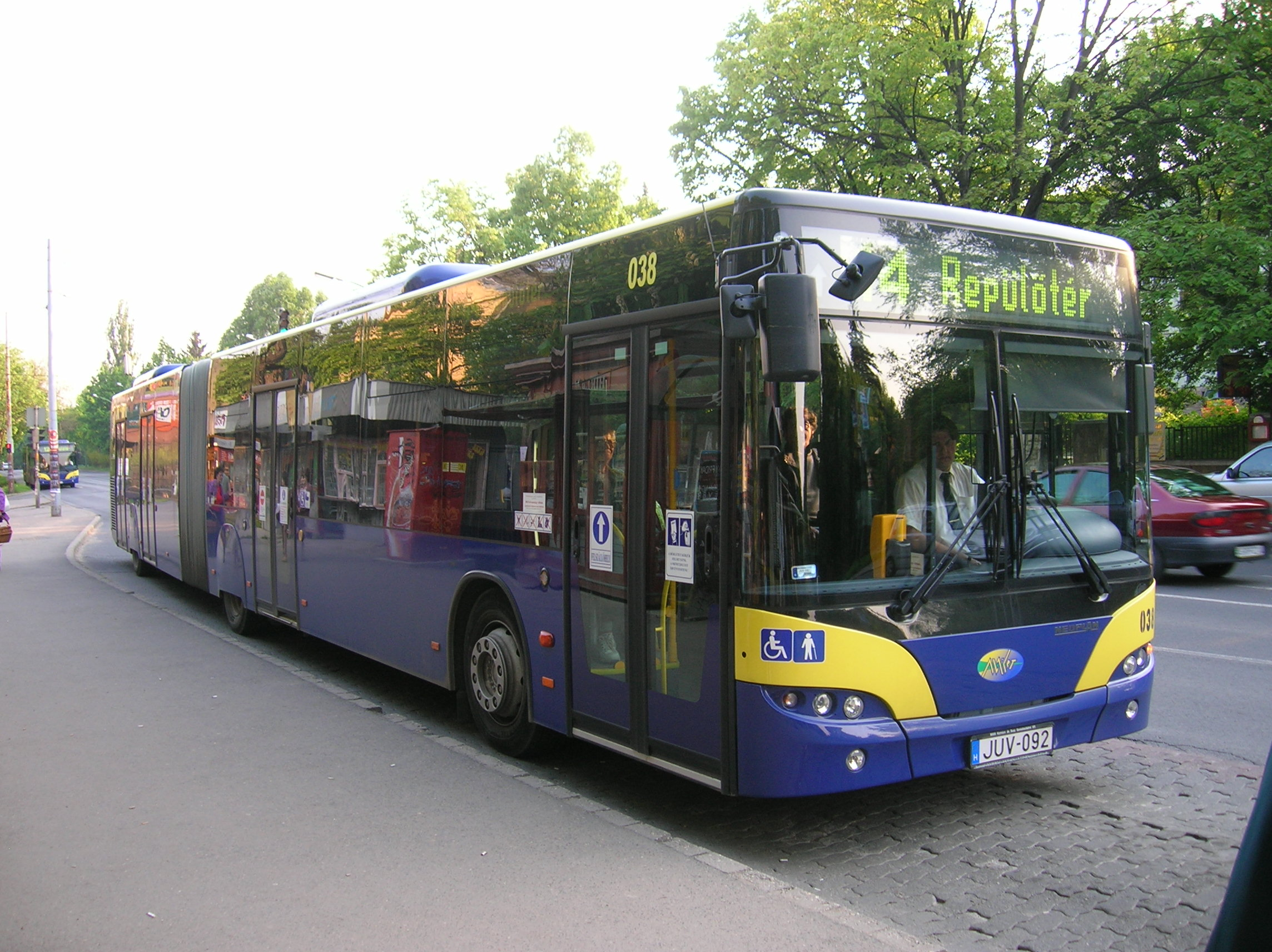 A new Neoplan city bus on line 14, heading towards the airport. At Semmelweis Hospital, Miskolc, Hungary.